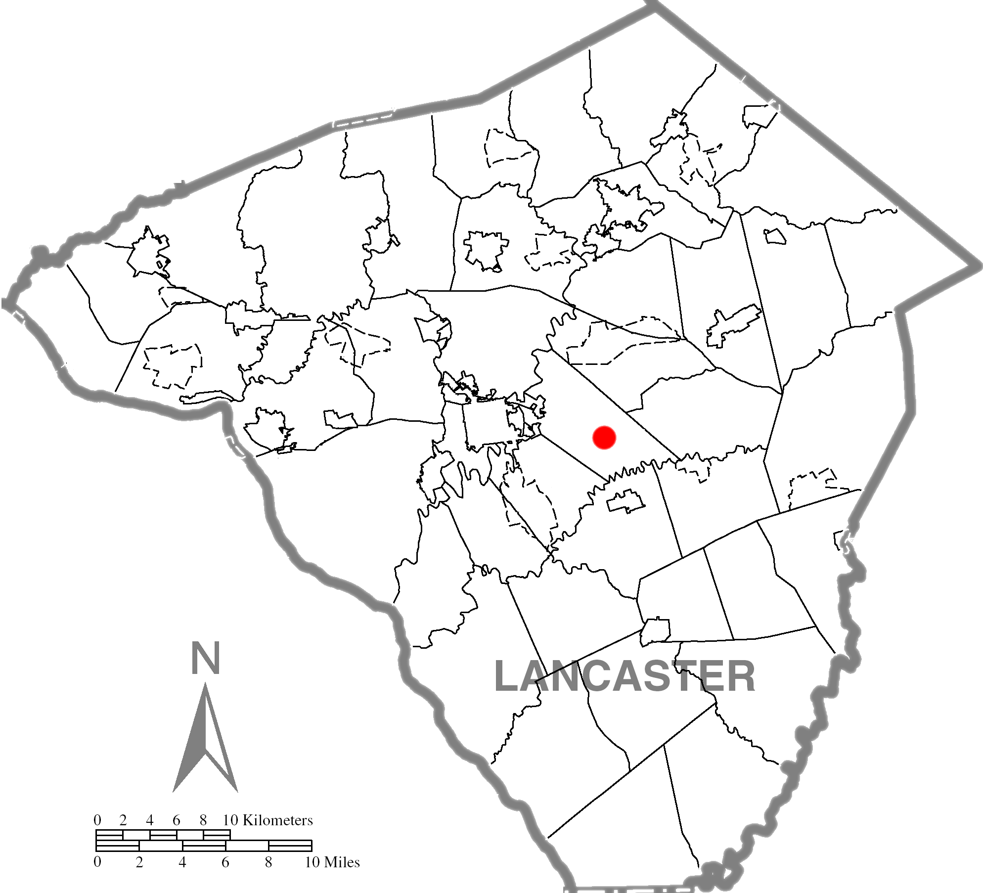 Lancaster County dot map of the Willow Hill Covered Bridge.